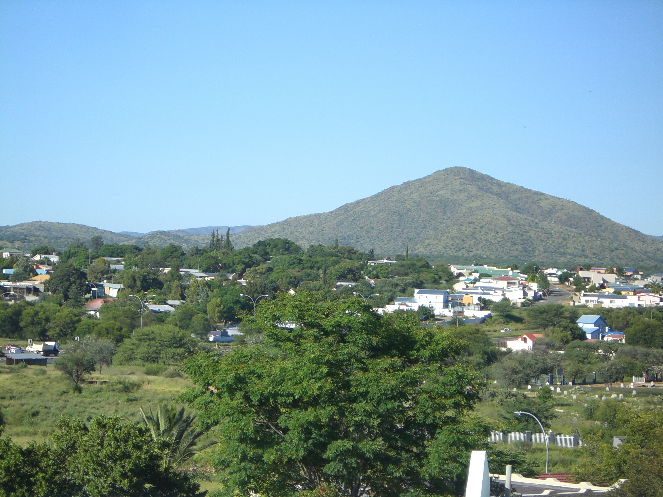 Part of the skyline of Hochland Park, matched to be compared to the historic picture in the English Hochland Park article. Picture has been taken from Opsprey Road, in Western direction